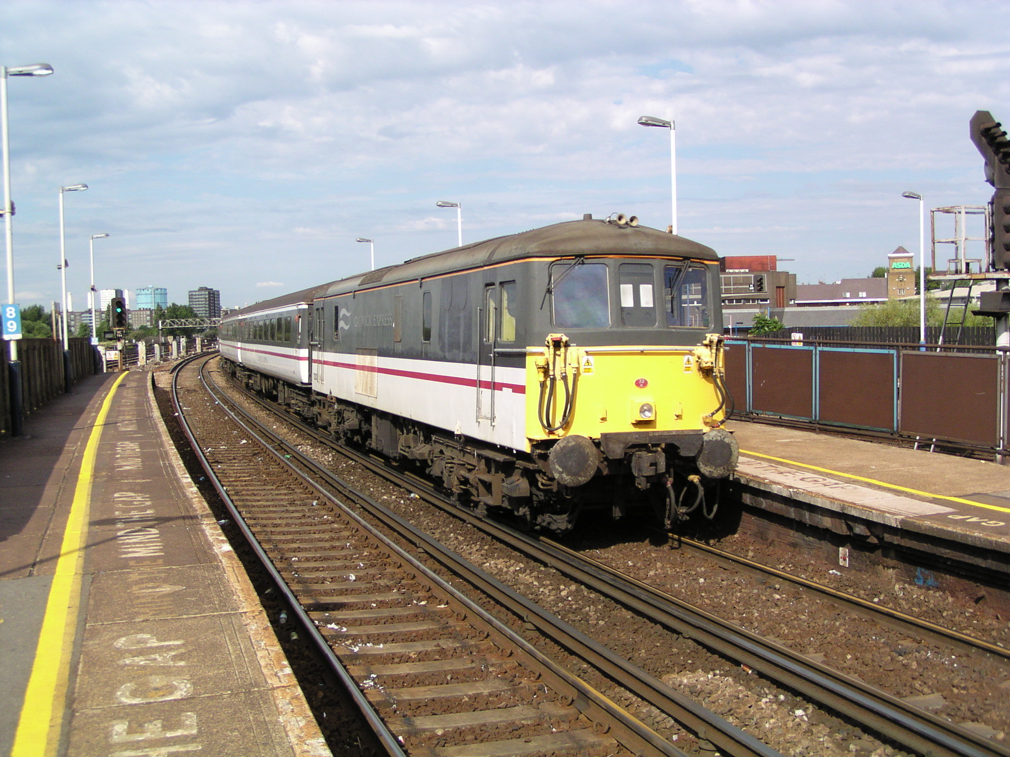 BR Class 73, no. 73201 at Clapham Junction on 19th July 2003. This locomotive is one of three still in use with Gatwick Express.